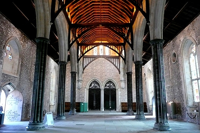 The Great Hall, Winchester Castle This is Henry 3rd's Great Hall, the only significant remains of Winchester Castle, built in 1222. This is looking east towards the stainless steel gates erected to commemorate the wedding of Charles, Prince of Wales to Lady Diana Spencer in 1981. Surrounding the gates, the wall is painted with the names of the MPs who have represented Hampshire since the late 13th century, the time of Edward 1st. The roof was reconstructed as seen after a fire of about 1305. The door to the left is more recent, leading onto Castle Avenue, whilst the door to the right leads into Queen Eleanor's garden. These were named after either Eleanor of Provence, wife of Henry 3rd, or Eleanor of Castile, wife of Edward 1st.